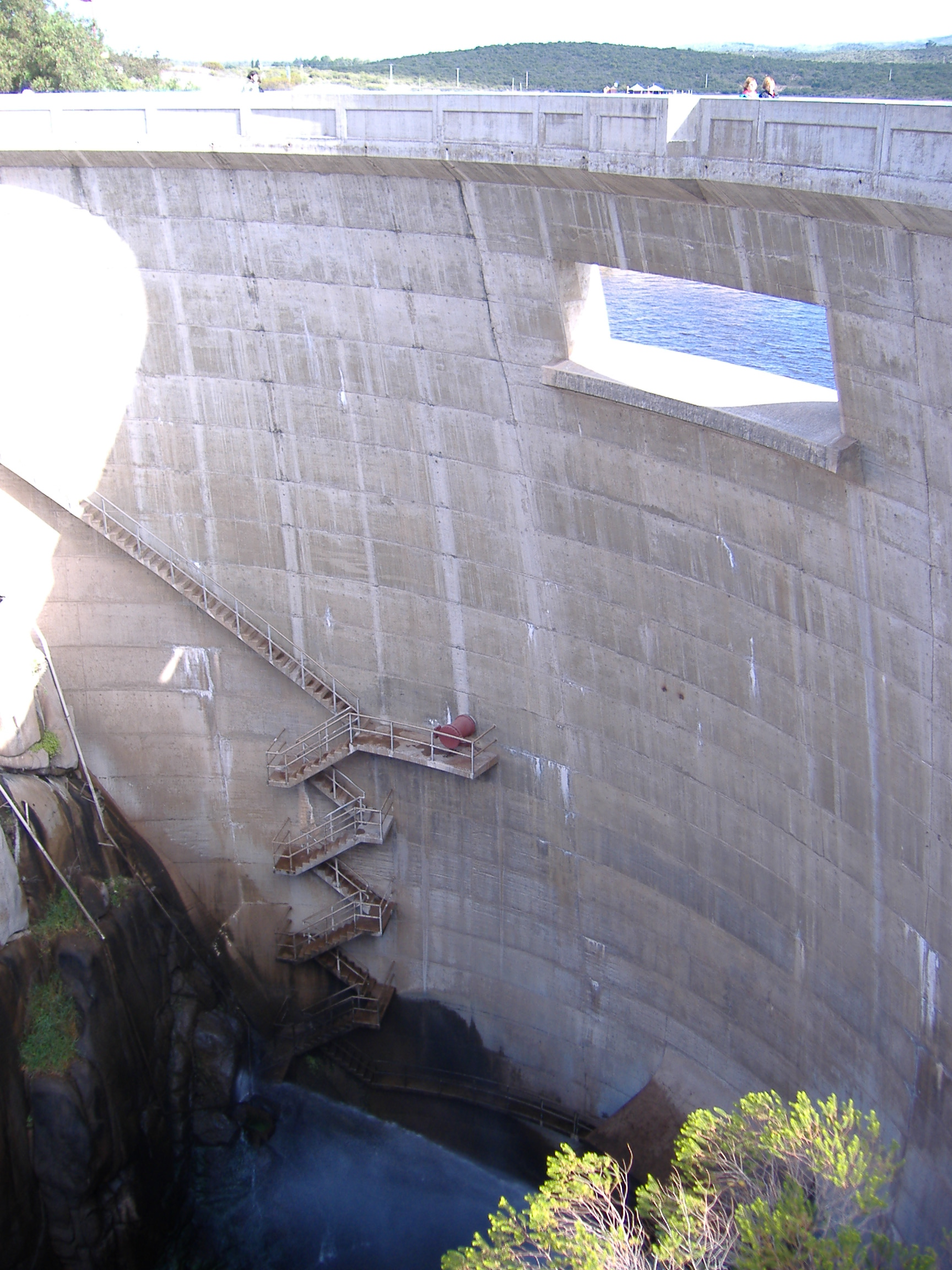 El Cajón Dam, in Córdoba Province, Argentina, near the town of Capilla del Monte.